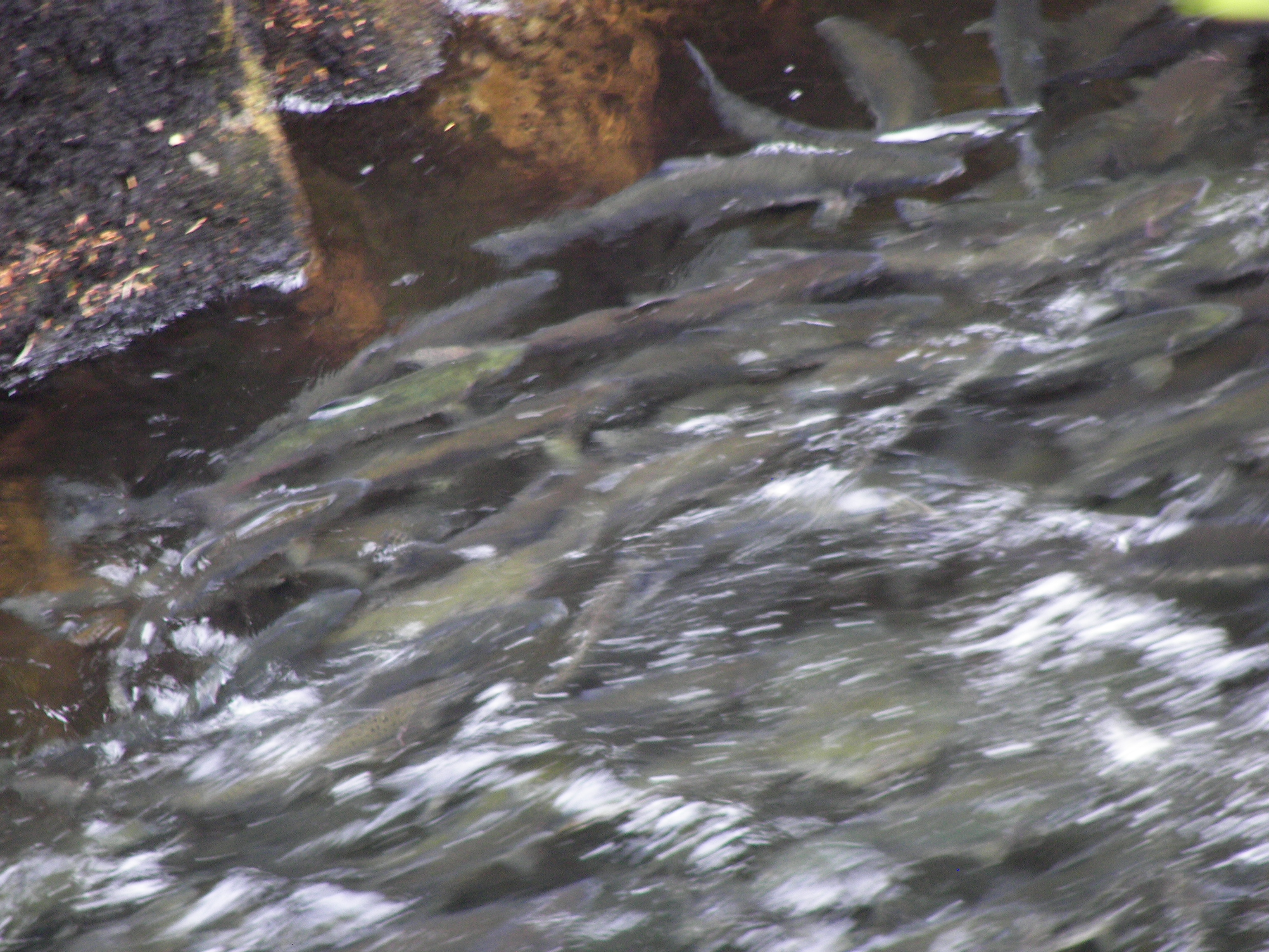 Salmon swimming upstream in Ketchikan Creek in Ketchikan, Alaska, United States.